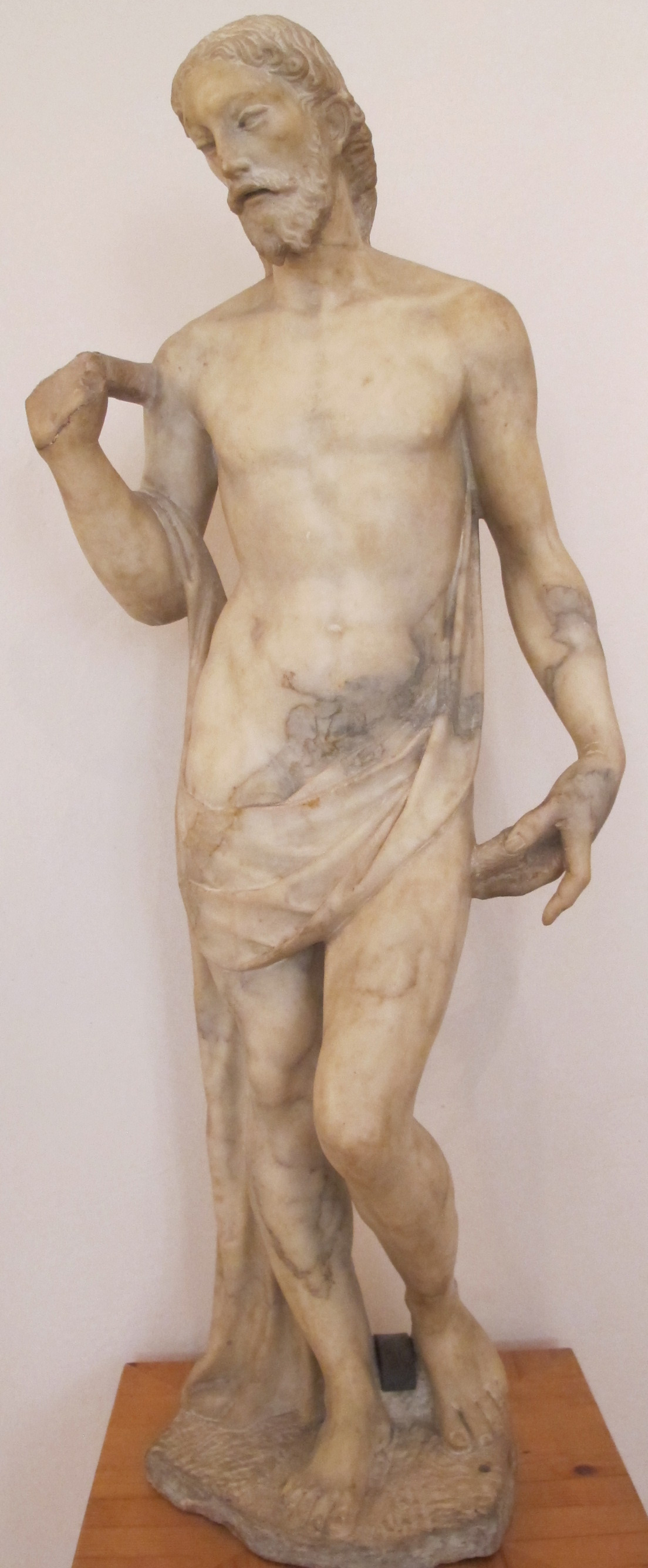 Sculpture in the National Pinacotheque, Siena